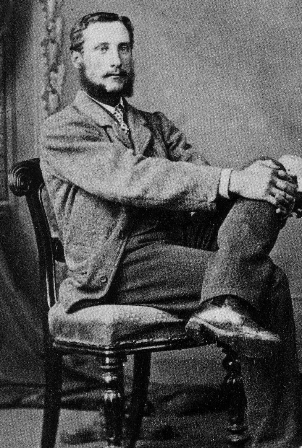 William Soltau Davidson 1846-1924. Photographed circa 1882